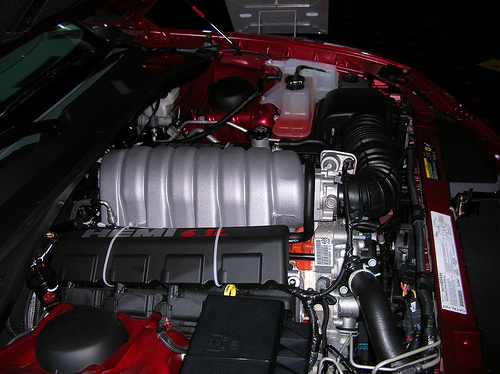 6.1L Hemi Engine